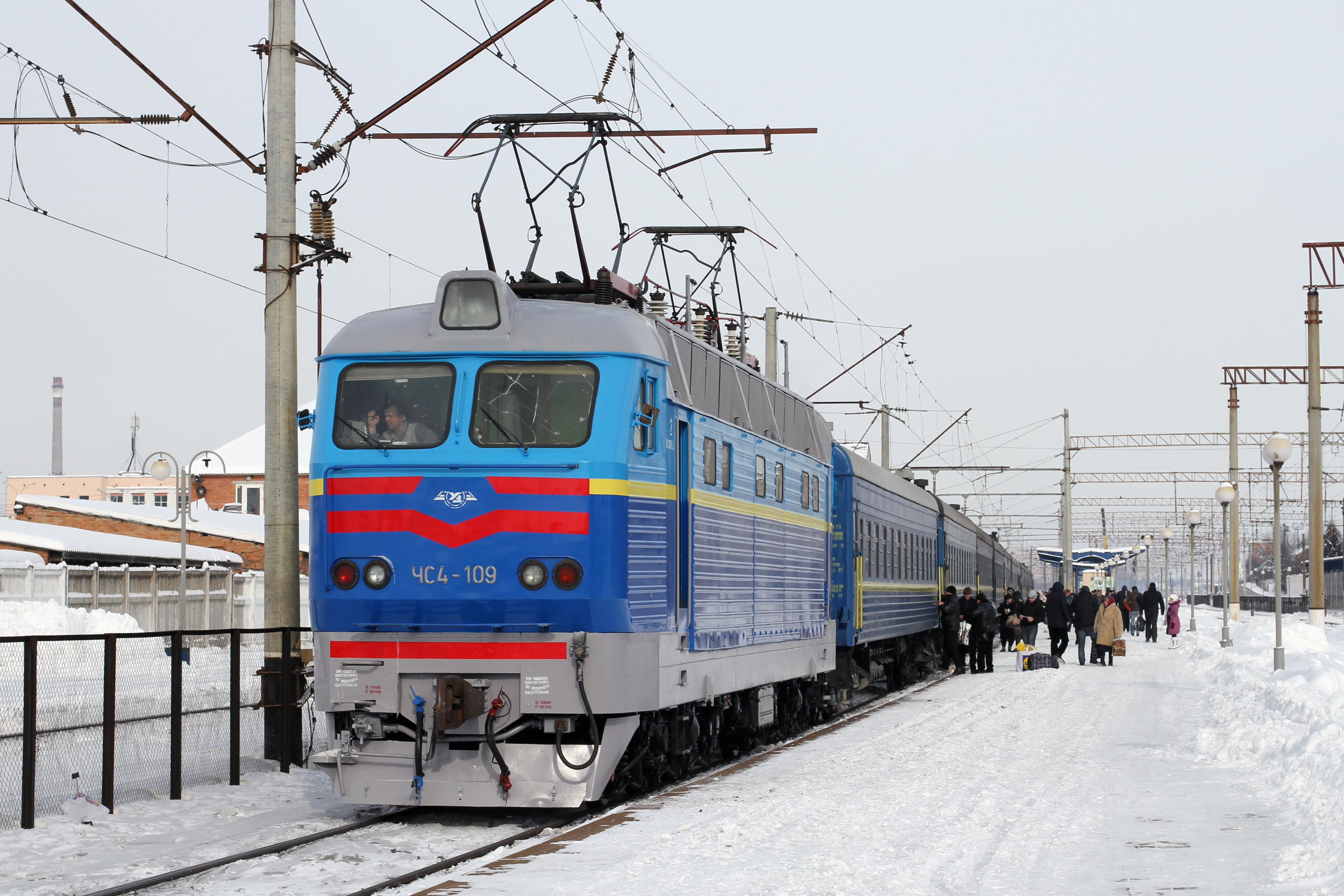 Electric locomotive Škoda ChS4-109 with new metal car body after heavy locomotive overhaul. This locomotive has been made 10.1969. The Moscow — Odessa train in Vinnytsia railway station.